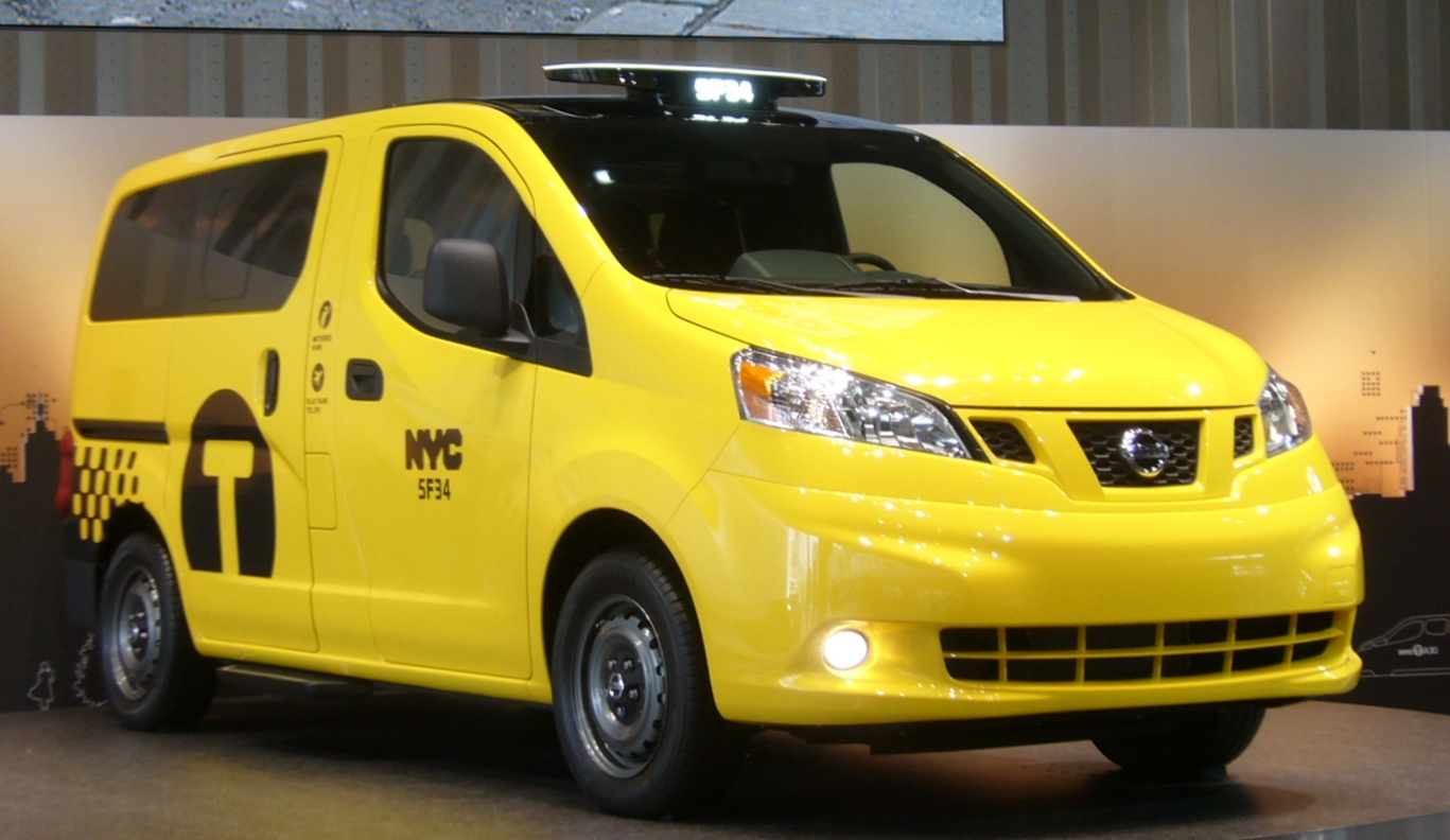 NISSAN NV200